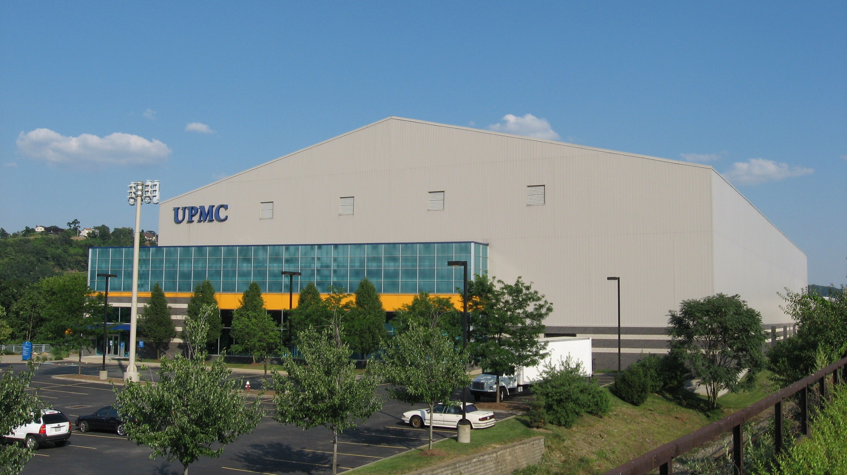 UPMC Sports Performance Complex, practice football field for the Pittsburgh Steelers and Pitt Panthers 40°25′23.7″N 79°57′29.3″W / 40.42325°N 79.958139°W